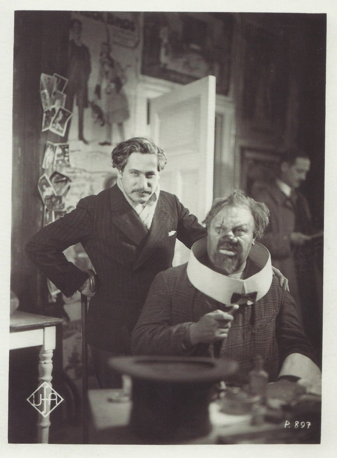 The Blue Angel (film) 1930 BW photo on set, Josef von Sternberg (director), Emil Jannings. Paramount Pictures